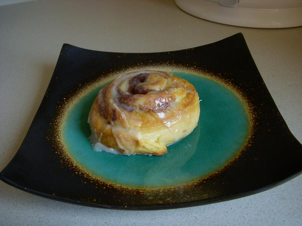 A cinnamon roll with glaze